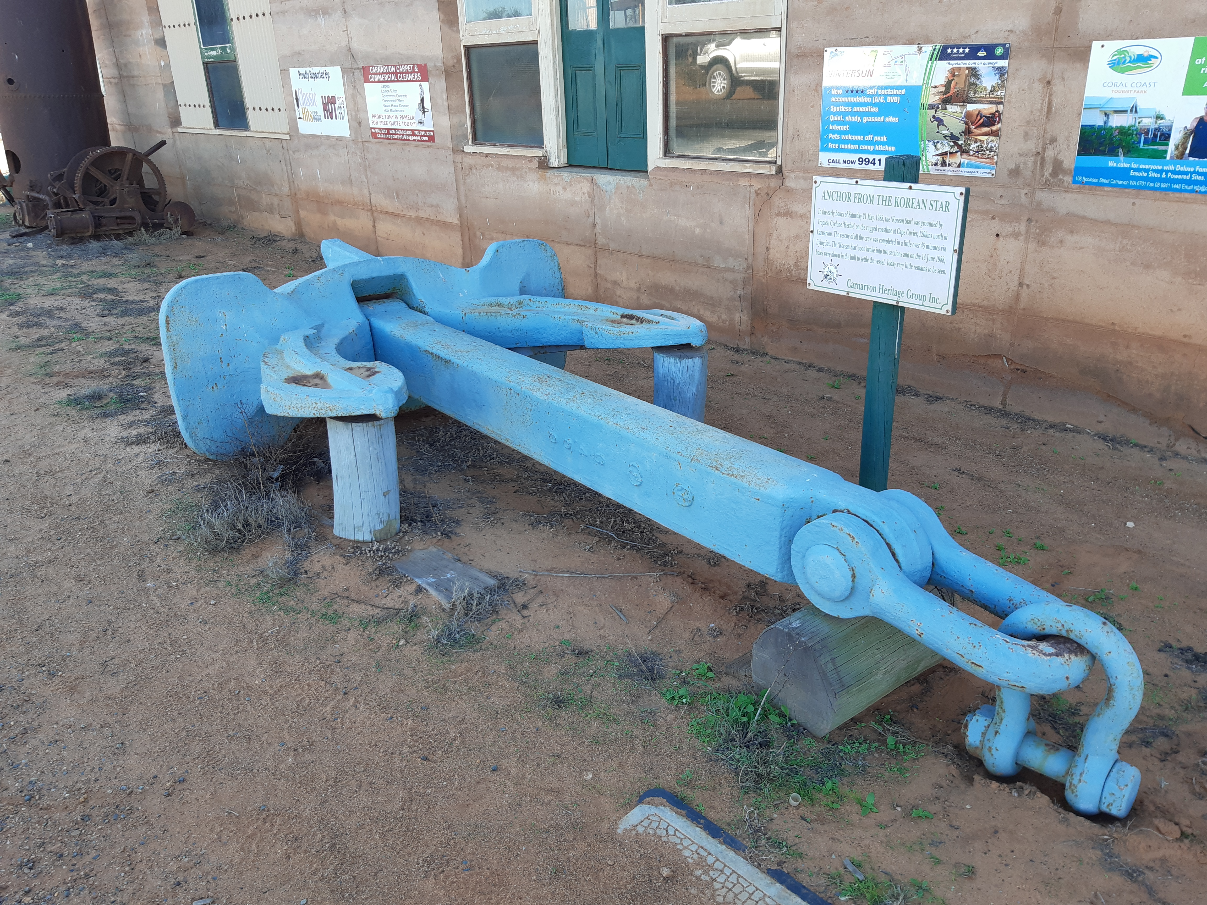 The anchor of the MV Korean Star, wrecked of the Western Australian coast, on display near One Mile Jetty, Carnarvon.